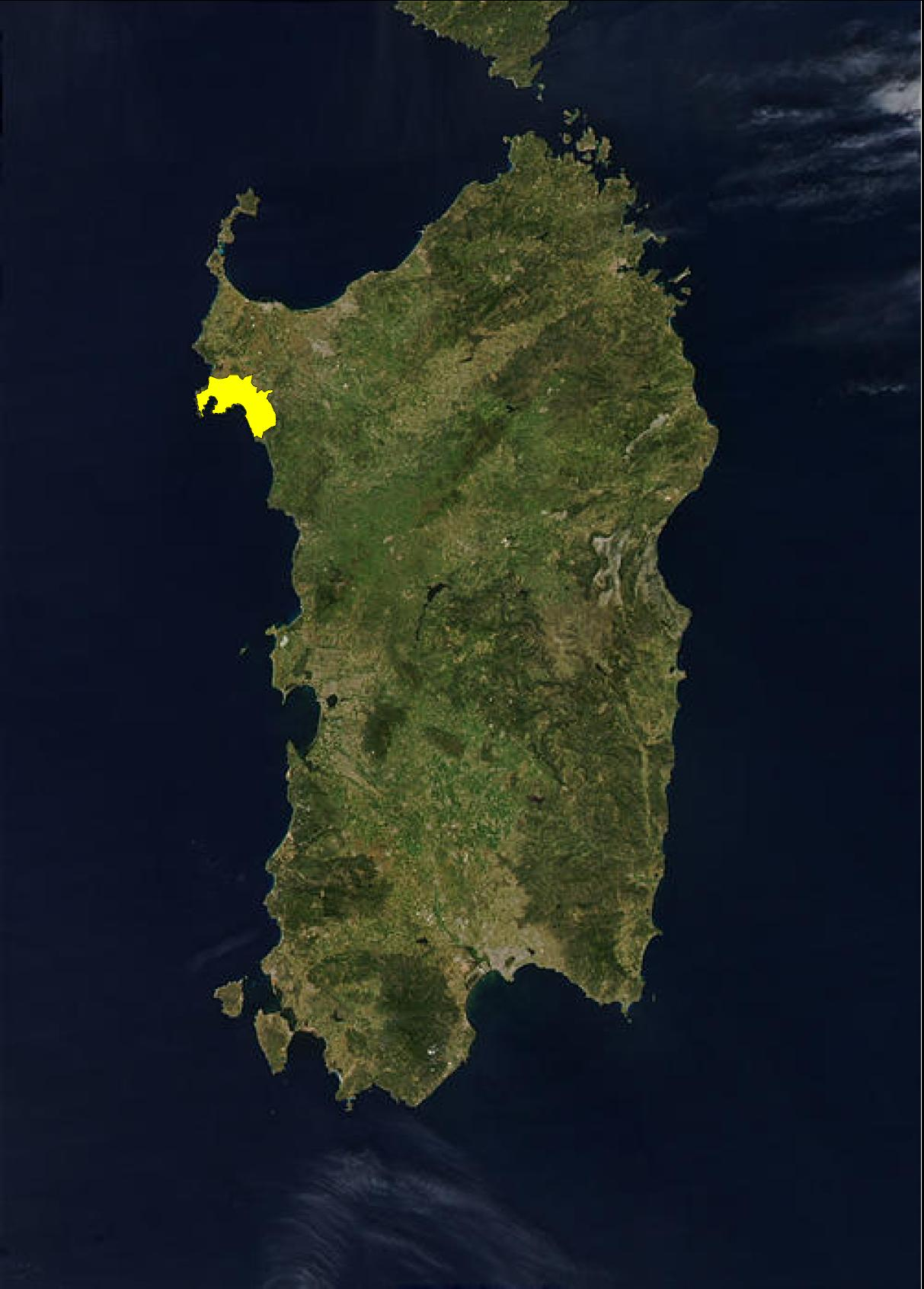 Situation of Alghero in Sardinia Fet a partir de Image:Sardinia satellite.jpg